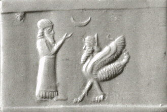 Babylonian; Cylinder seal; Stone-Cylinder Seals